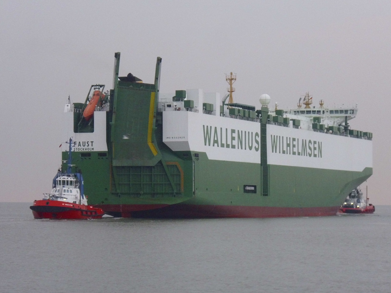 The car carrier Faust on the river Weser. The ship is coming from Bremen and now moving to the port of Bremerhaven. Details of the ship: external website (pdf).